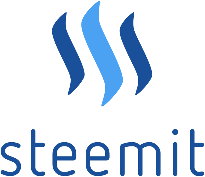 Steemit logo Large size